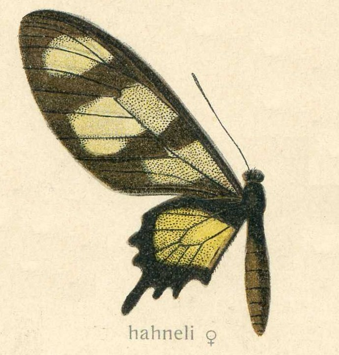 Hahnel's Amazonian Swallowtail, female, upperwing